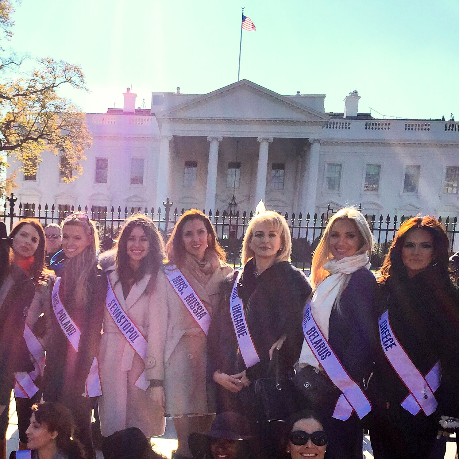 Наталья Николаева, представляющая Севастополь, среди других участниц конкурса красоты напротив Белого дома в Вашингтоне, США